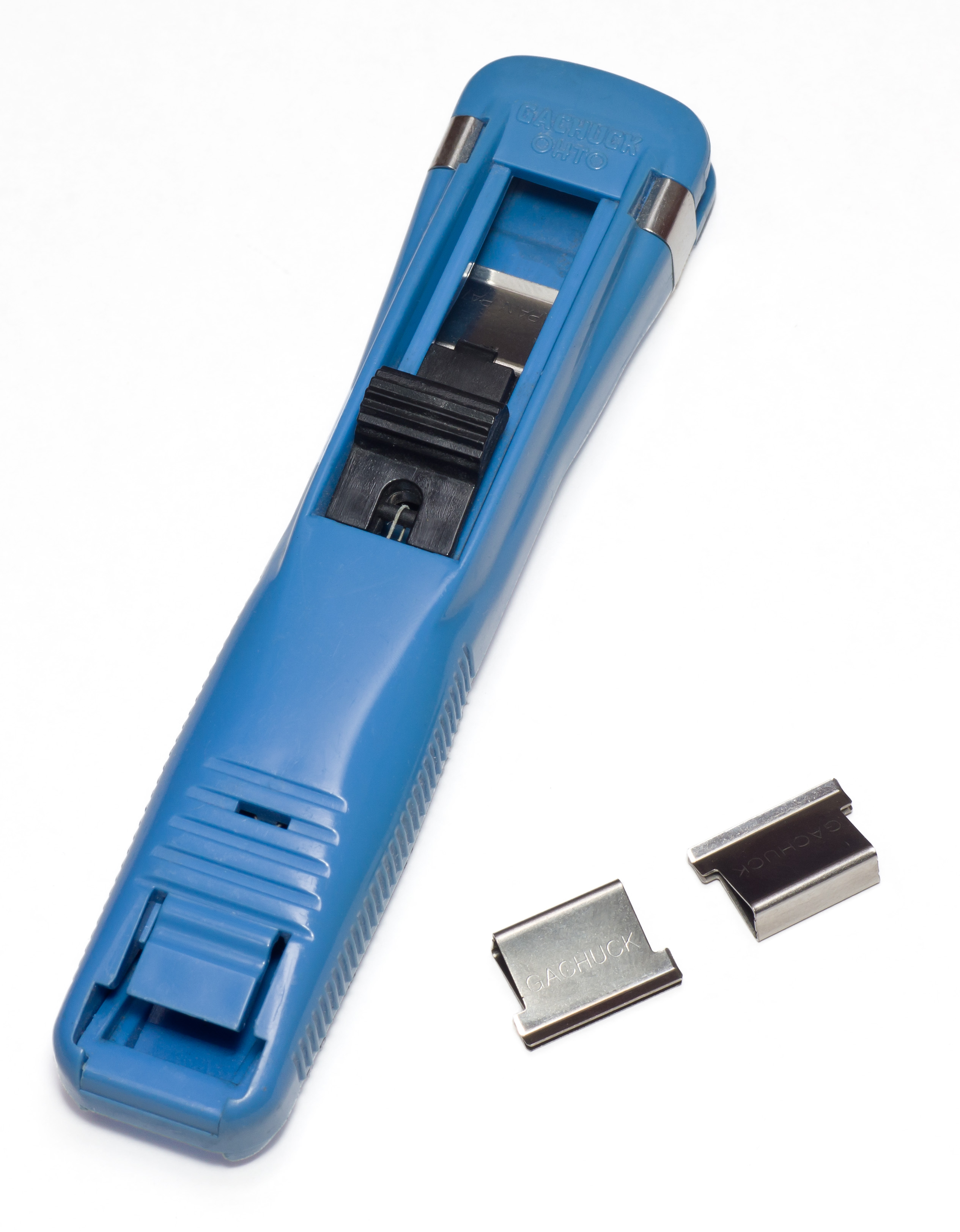 GACHUCK from OHTO CO., LTD.